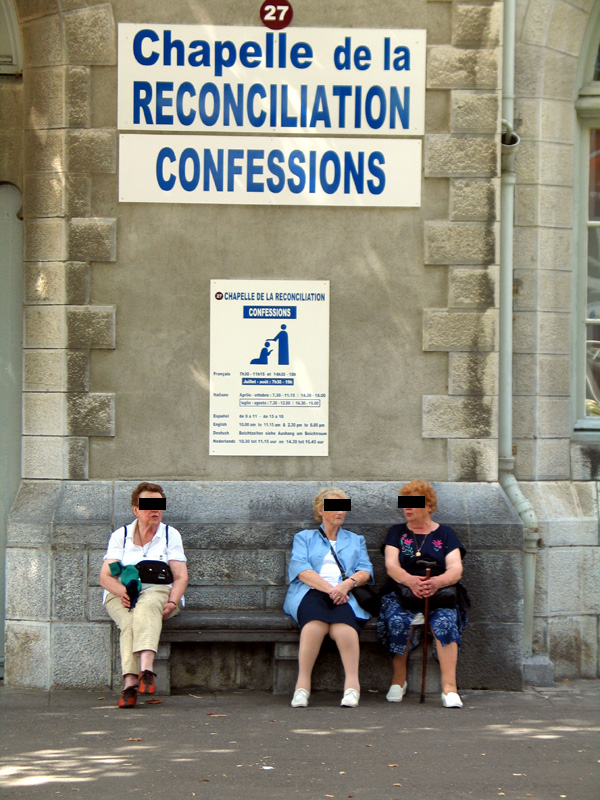 People waiting for the confession (faces made unrecognizable), Lourdes, France